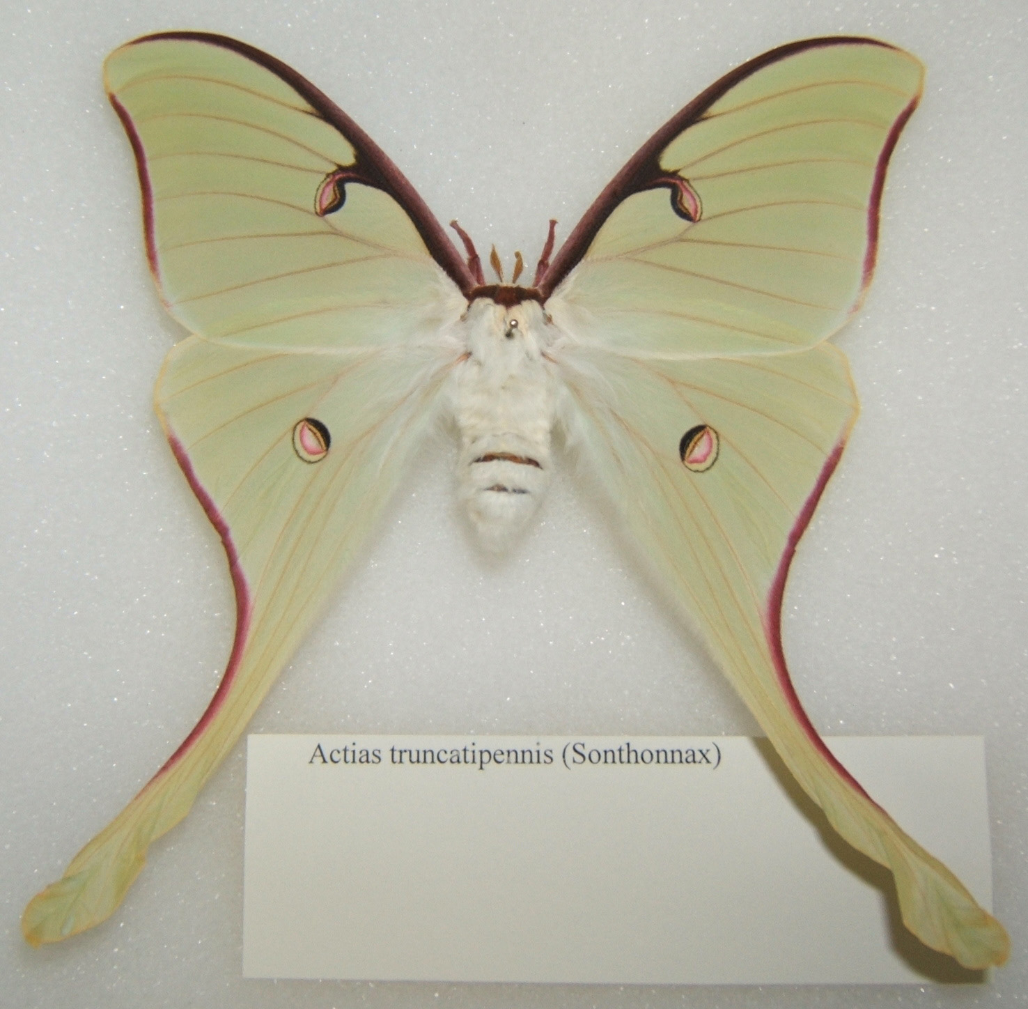 Actias truncatipennis adult female taken by Shawn Hanrahan at the Texas A&M University Insect Collection in College Station, Texas.